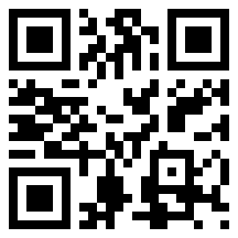 QR Code for mobile version of Slovene Wikipedija